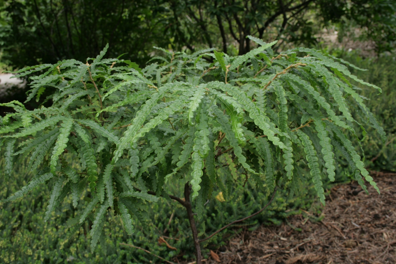 Comptonia peregrina: Habitus (Photo from the Botanical Garden of Aarhus, Denmark)